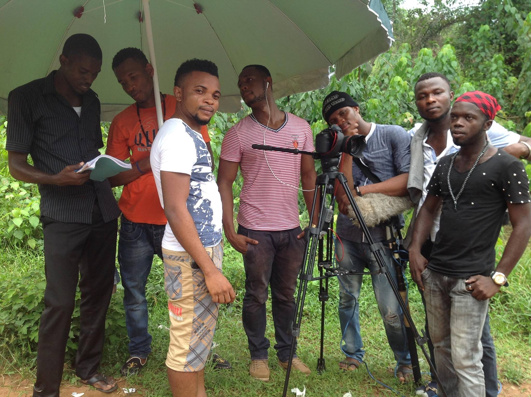 Photo of crew shooting a movie in Awka, Nigeria This is an image of "African people at work" from Nigeria